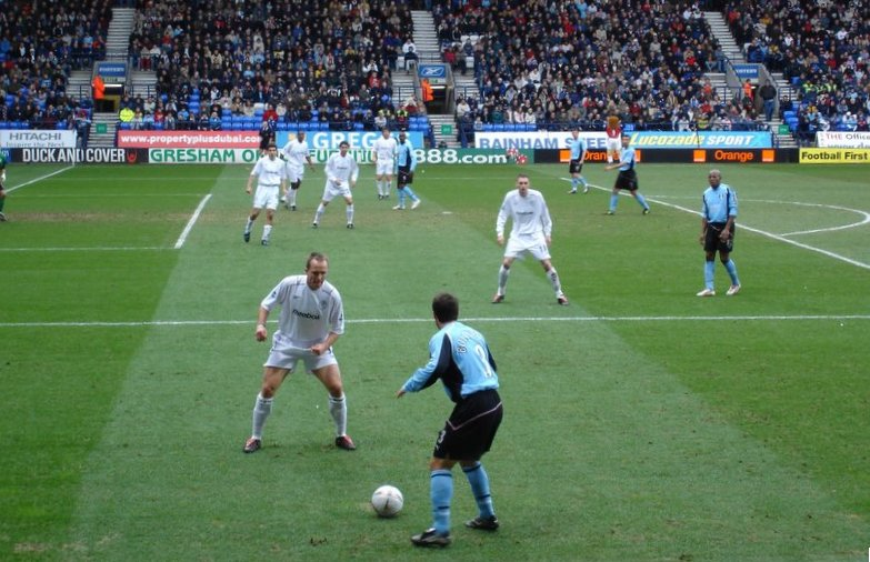 Football: Fulham vs. Bolton Wanderers, FA Cup Fifth Round match Image rotated 2deg to level horizon and cropped to square by User:Gnangarra